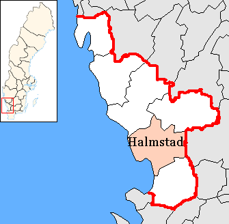 Halmstad Municipality in Halland County Designd by me, based on Image:Halland County.png